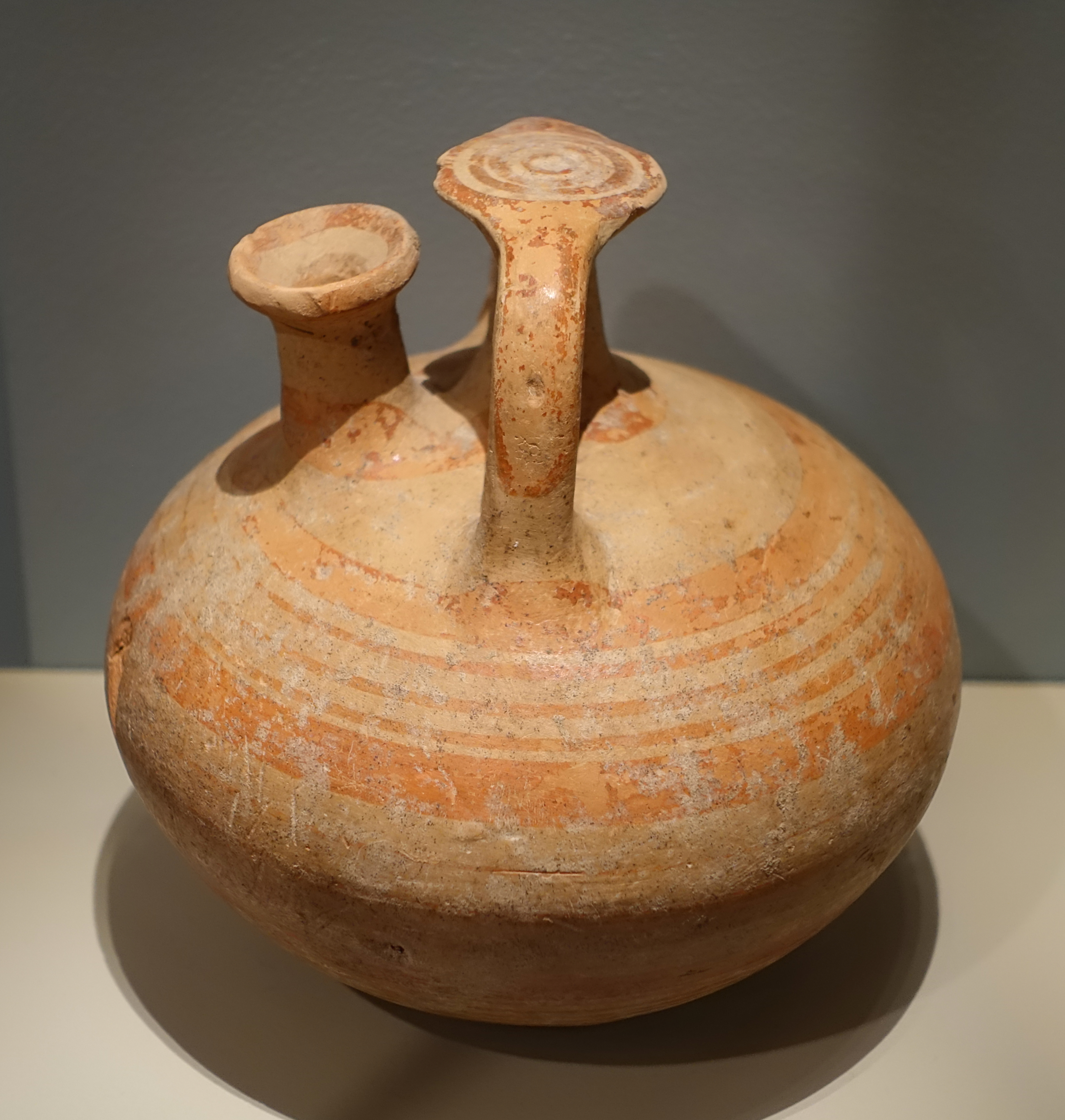 Exhibit in the Middlebury College Museum of Art - Middlebury, Vermont, USA.